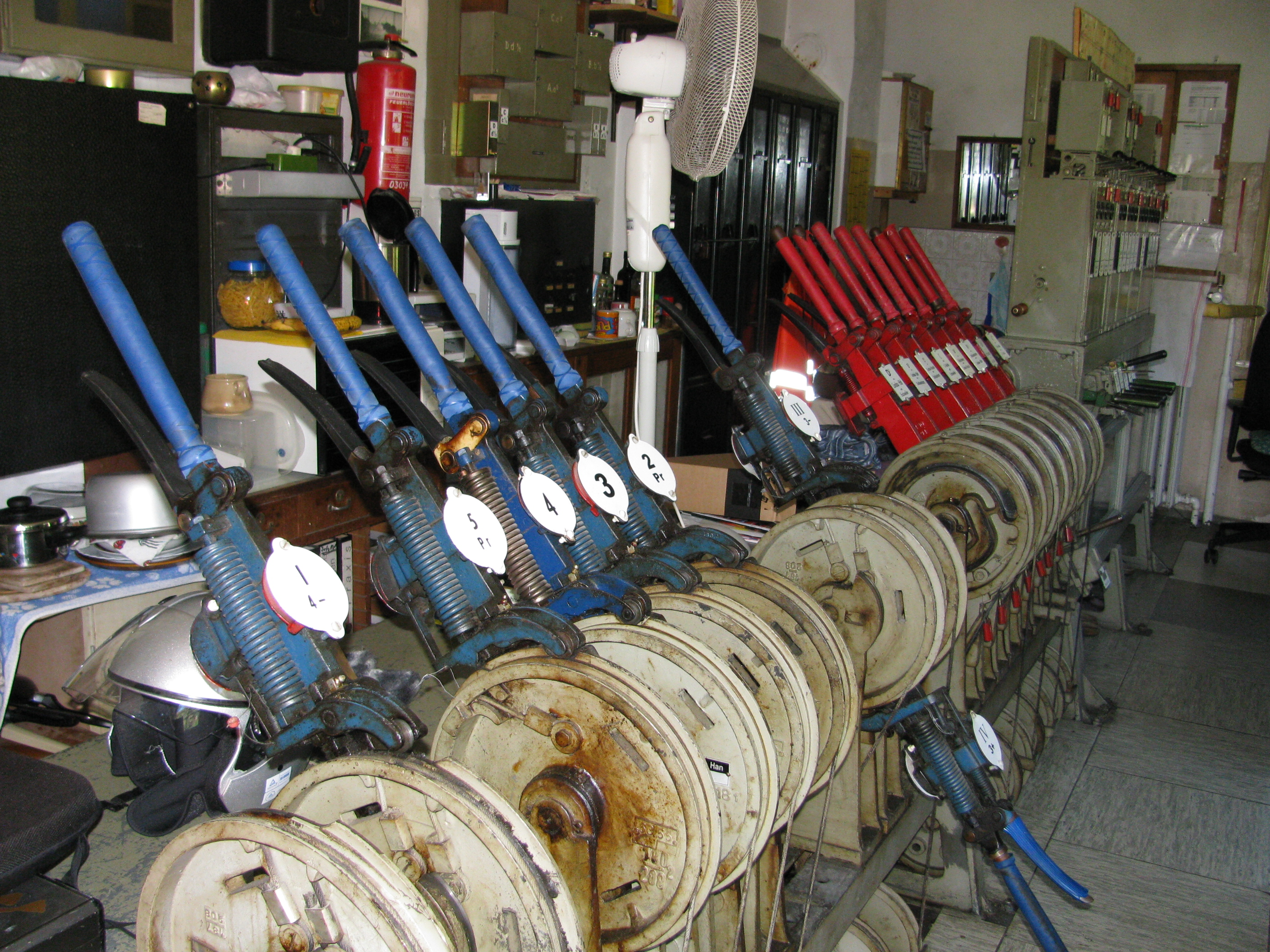 Germany - Bavaria - district Lindau - Lindau - Aeschach: watchman`s house, interlocking machines